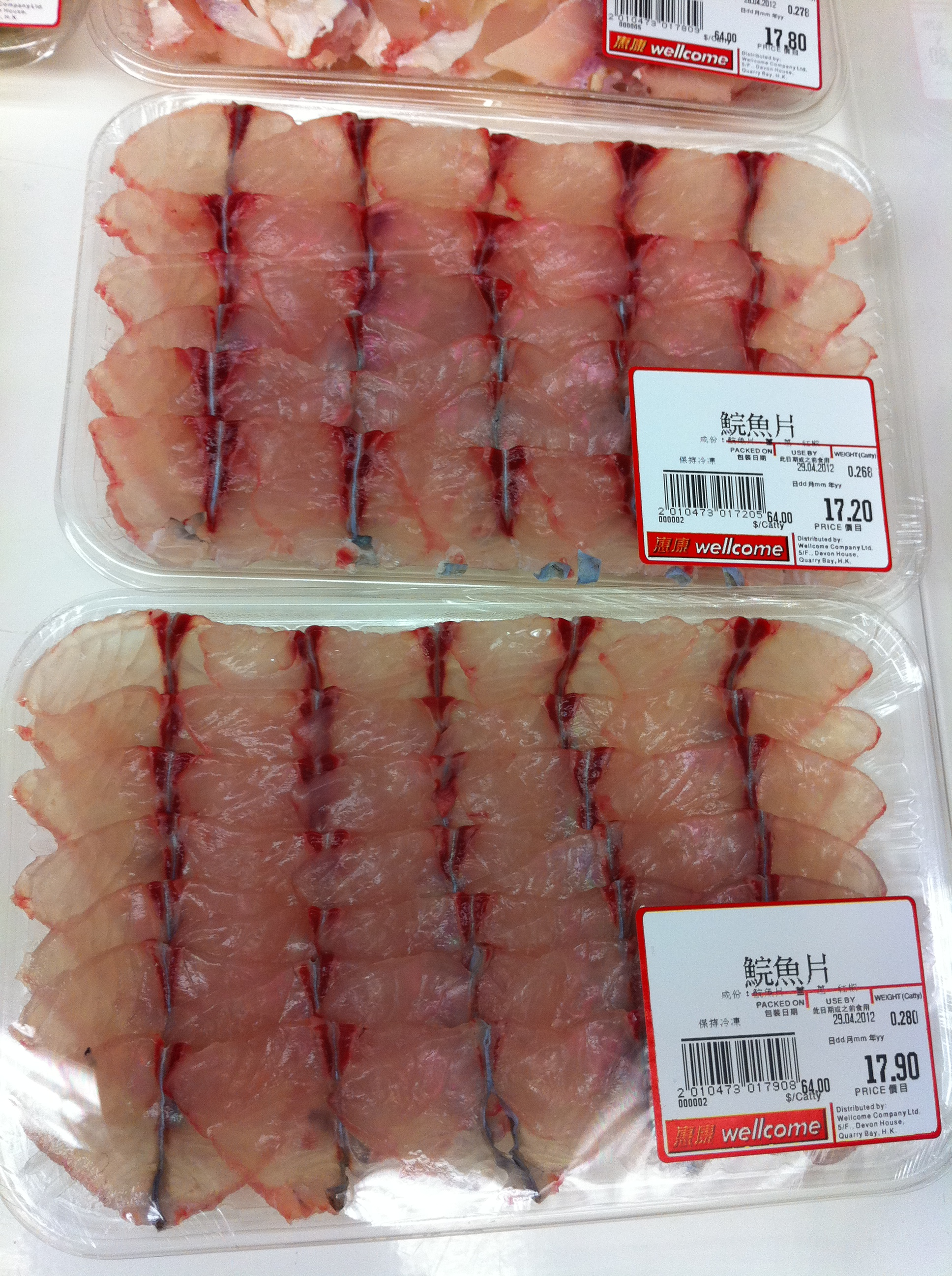 Fish products in Hong Kong